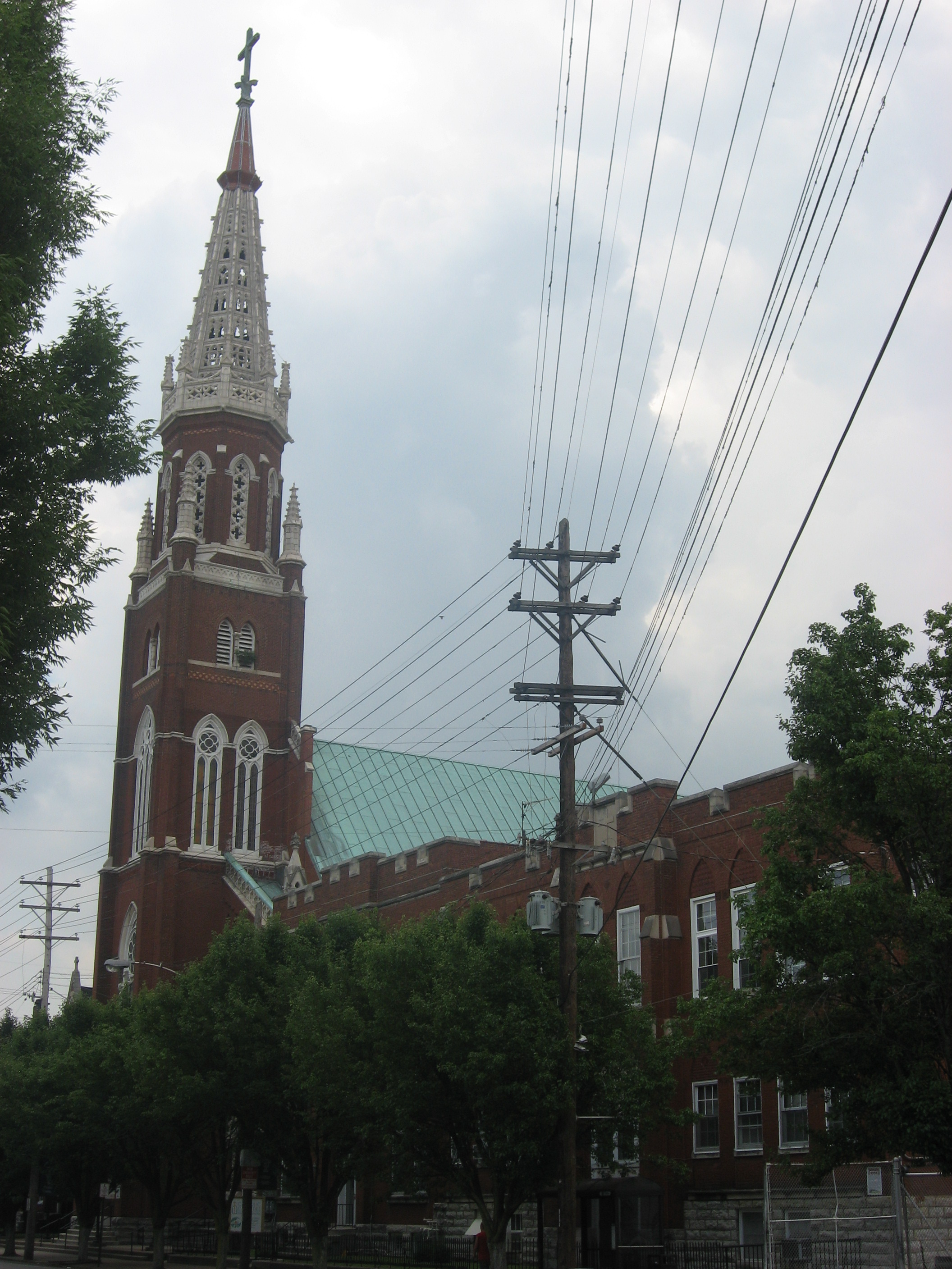 Front and western side of the former St. Anthony's Catholic Church, located at 2222-2233 W. Market Street in Louisville, Kentucky, United States. Built in 1887, it is listed on the National Register of Historic Places.